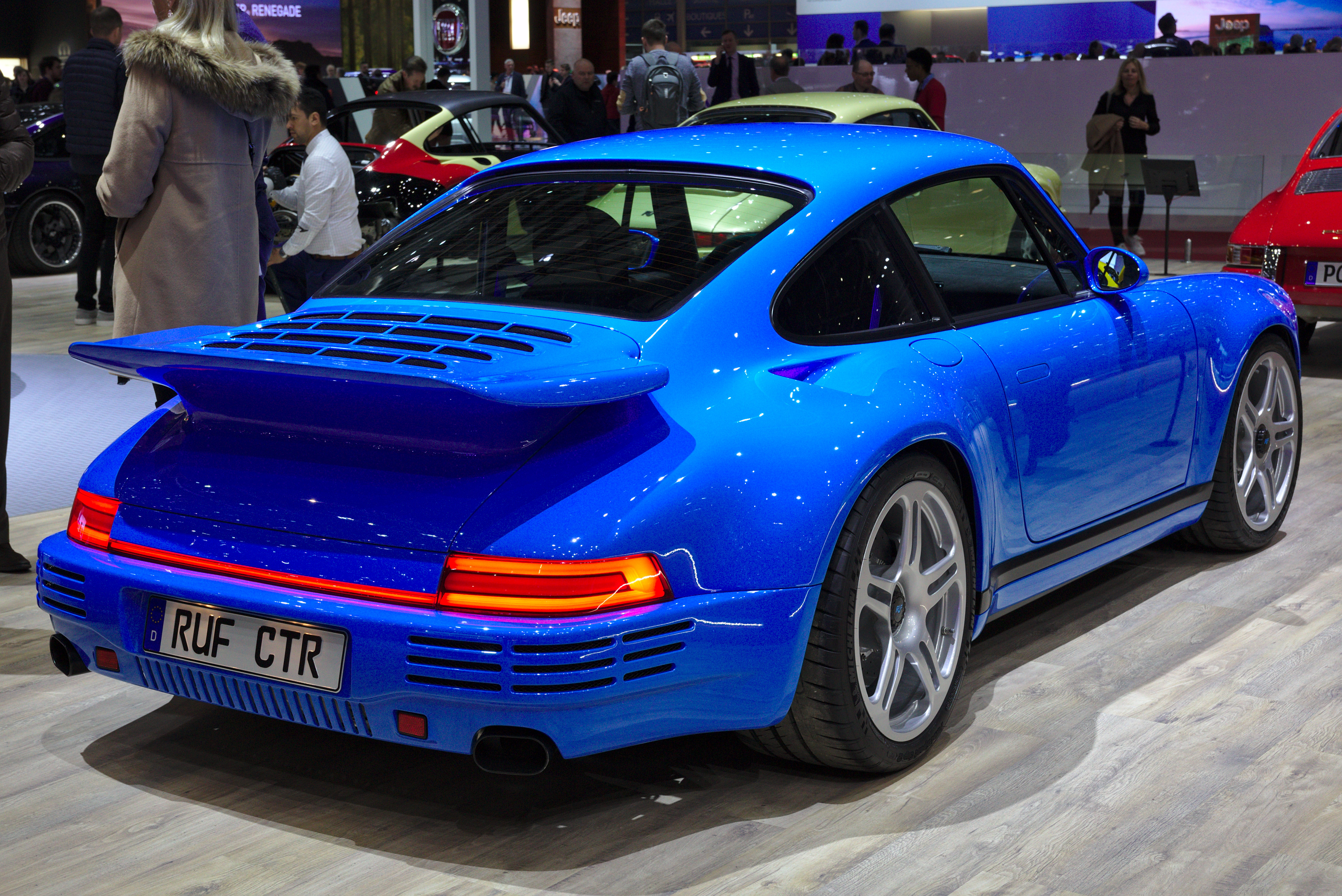 Ruf CTR at Geneva Motor Show 2019